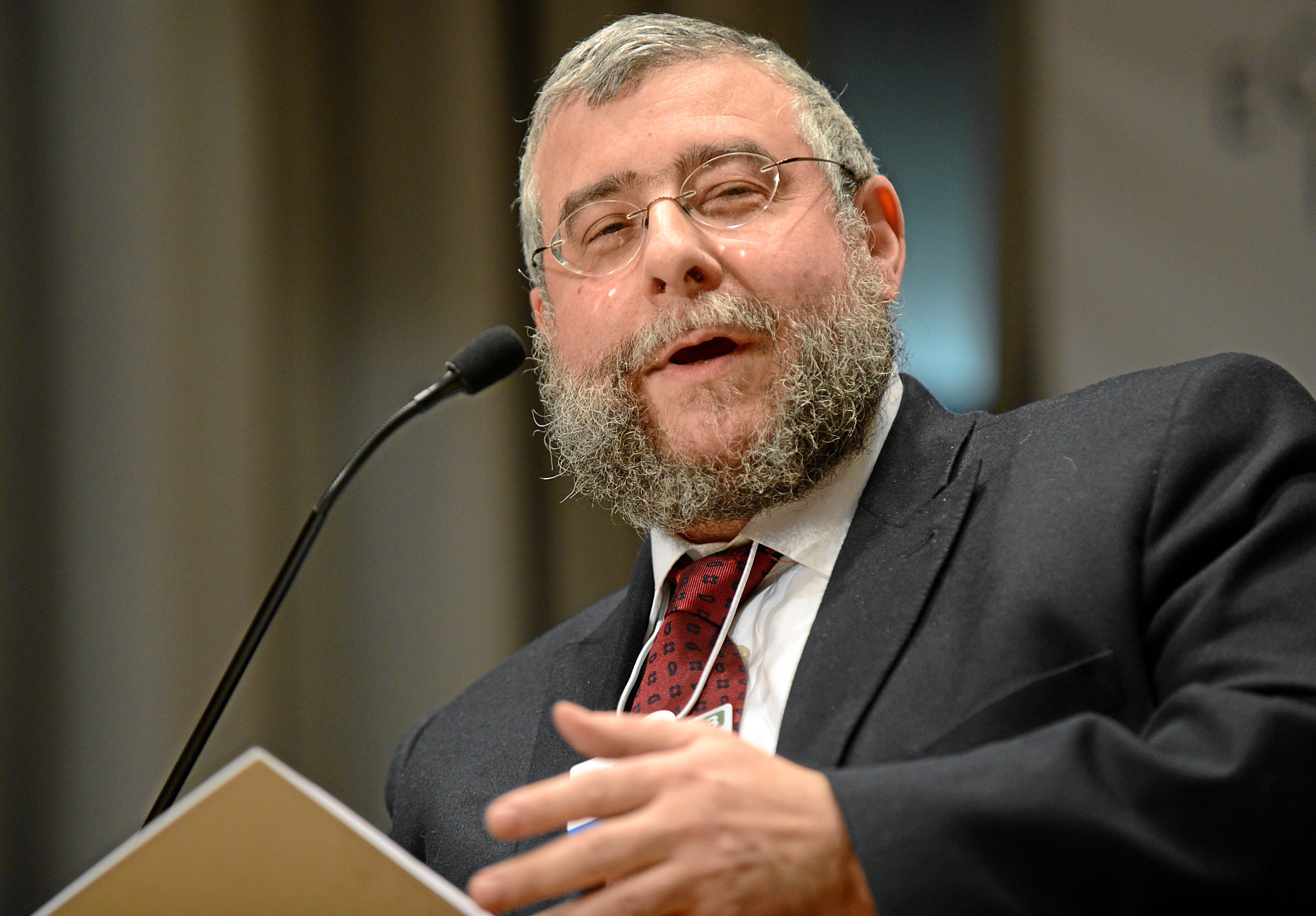 DAVOS/SWITZERLAND, 25JAN13 - Pinchas Goldschmidt, Chief Rabbi and President, Conference of European Rabbis, Russian Federation speaks during the session 'Open forum: Is Religion Outdated in the 21st Century?' at the Annual Meeting 2013 of the World Economic Forum at the Swiss alpine high school in Davos, Switzerland, January 25, 2013. . . Copyright by World Economic Forum. . Michael Wuertenberg